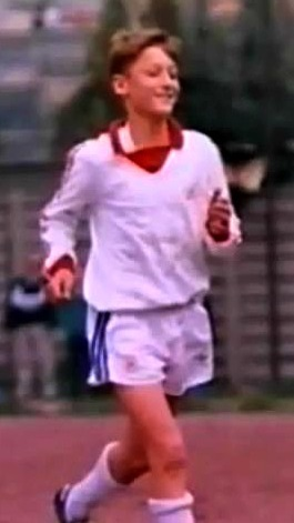 Cropped version of File:Francesco Totti Giovanissimi Lodigiani 1988-1989.jpg.